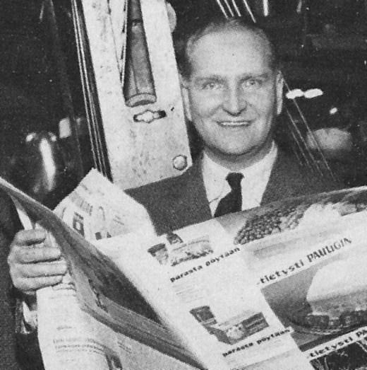 Osmo Oittinen, CEO of newspaper Uusi Suomi, later director at KELA (Finnish Pension Authority), here in 1960